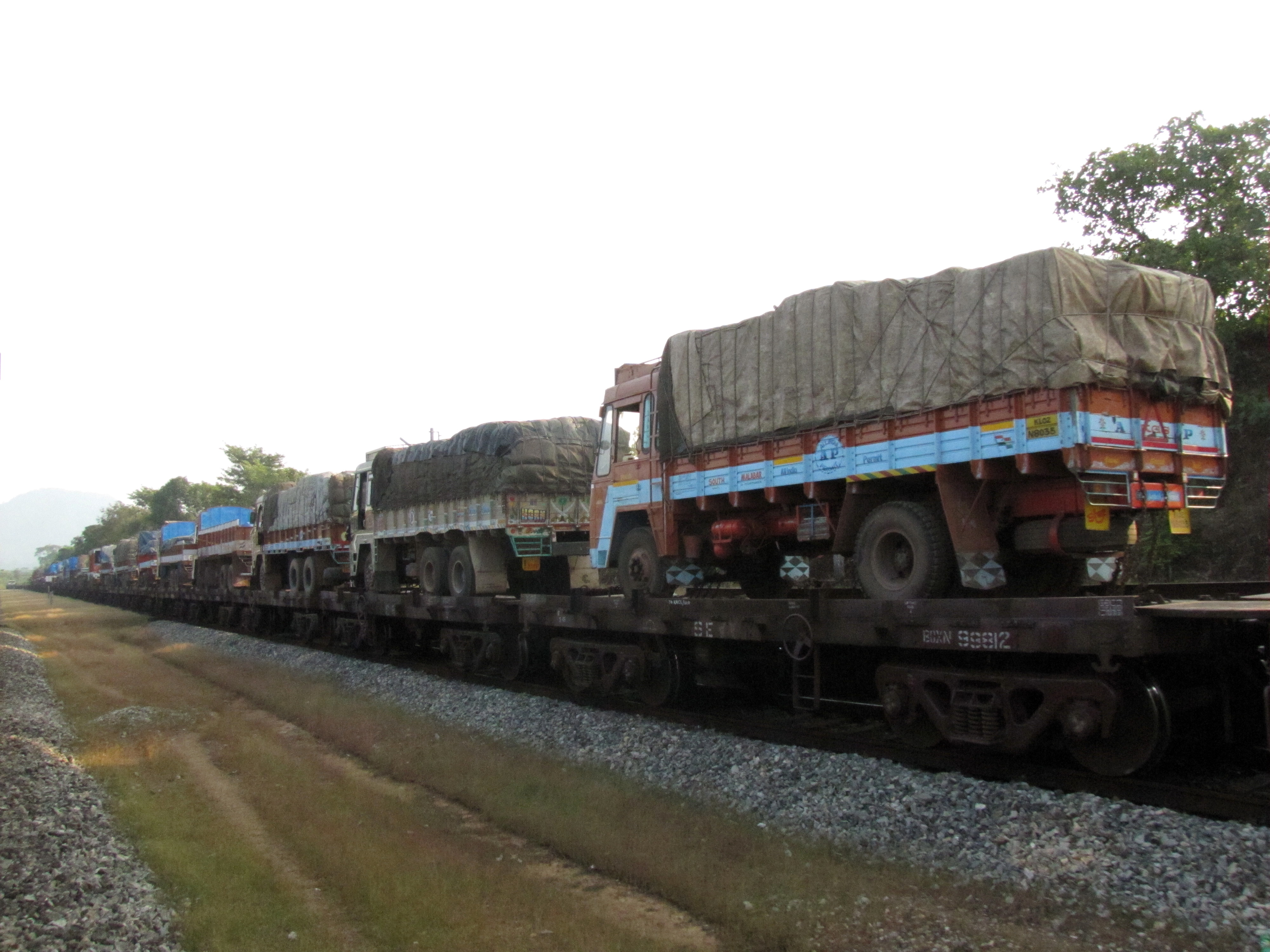 Train Carrying Trucks in Konkan Railway, India